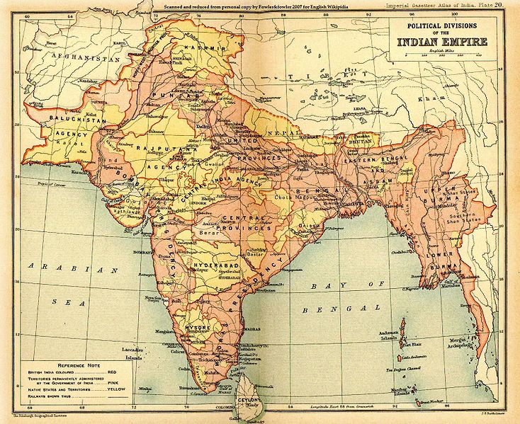 Map titled Political Divisions of the Indian Empire, from The Imperial Gazetteer of India (Oxford University Press, 1909); this image scanned by User:Fowler&fowler and uploaded to the English Wikipedia as File:IGI british indian empire1909reduced.jpg